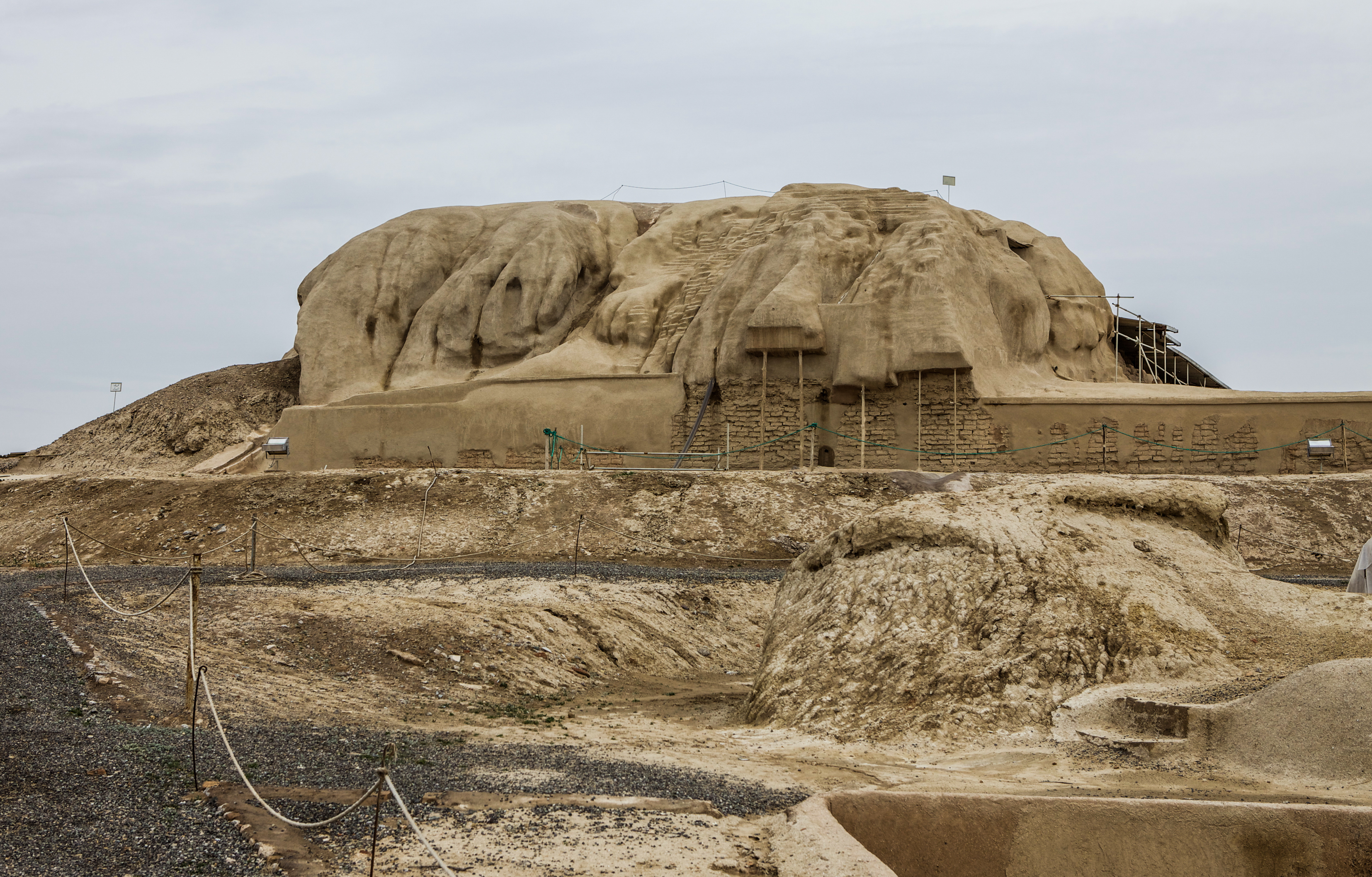 Tepe Sialk Ziggurat in Kashan, Iran